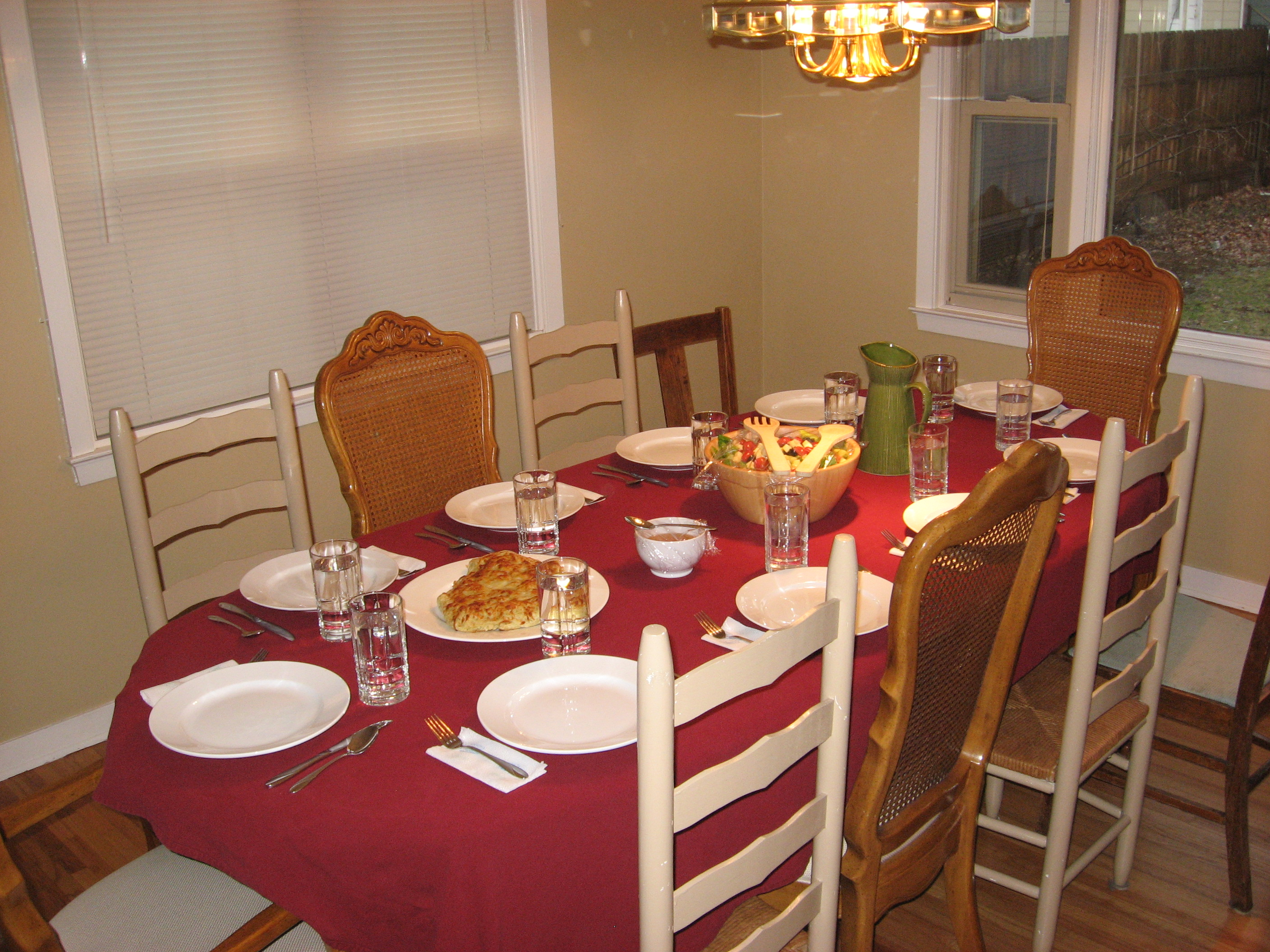 I took this photo of a Lord's Day.